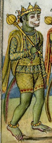 "Rāmacandra standing in a rocky landscape with Laksmana and the bear and monkey chiefs of his army" "The Chief's of Rama-Chandra's army. 1. Rama Chandra. 2. Lacshman. 3. King Sugriva. 4. Hoonoman. 5. Jambuvan. 6. Angada. 7. Arunda. 8. Nila. 9. Samrambha. 10. Nala. 11. Vanara. 12. Durvinda. 13. Rambha."